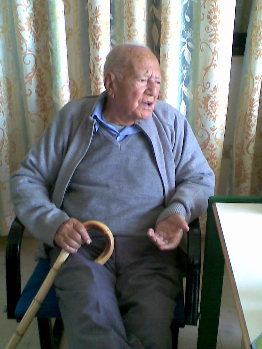 Dr. Ali Akilah, the founder of Akilah Hospital.